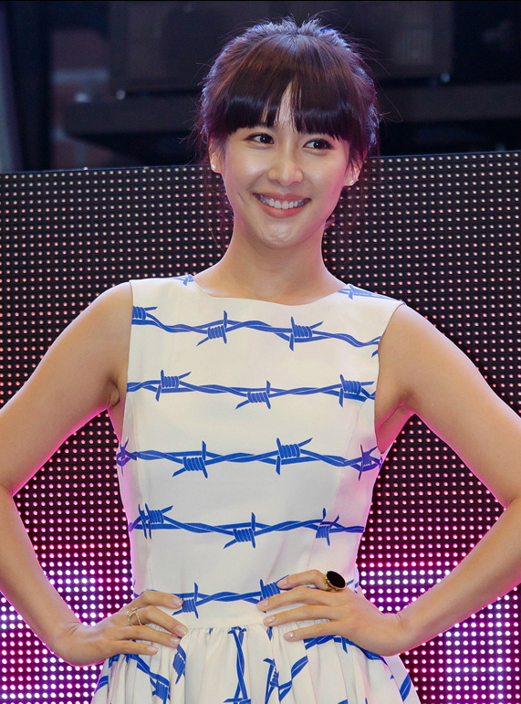 Jo Yeo-jeong at I Need Romance premiere, in June 2011